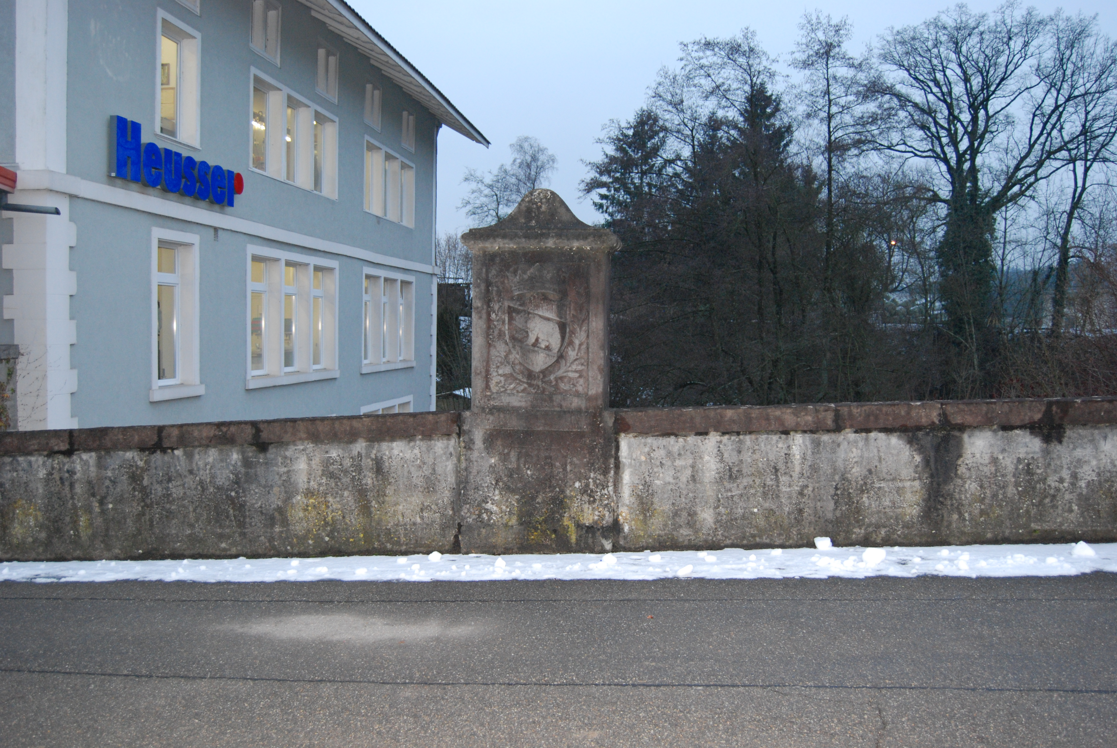 Bridge over Murg between Murgenthal (canton of Aargau) and Wynauy (canton Berne), SwitzerlandEsperanto: Ponto inter Murgenthal (Kantono Argovio) kaj Wynau (Kantono Berno), Svislando